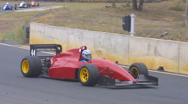 Reynard 92D Holden driven by Bill Norman in he Queensland Racing Drivers Championship.